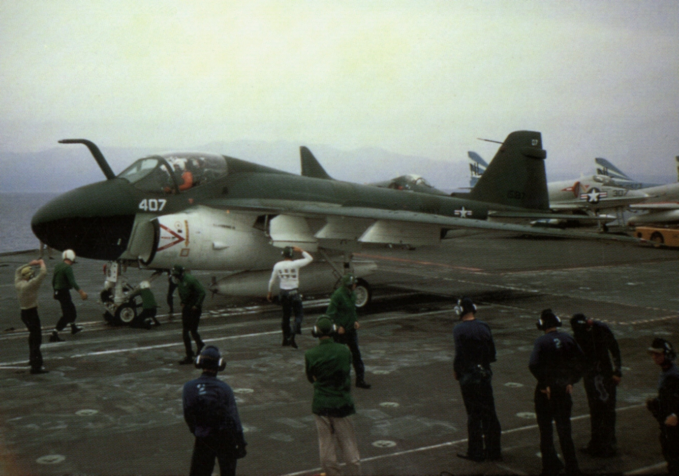 U.S. Navy Grumman A-6A Intruder (BuNo 151817) from Attack Squadron VA-65 Tigers on the flight deck of the aircraft carrier USS Constellation (CVA-64). VA-65 was assigned to Attak Carrier Air Wing 15 (CVW-15) aboard the Constellation for a deployment to Vietnam from 12 May to 3 December 1966. The U.S. Navy experimented with aircraft camouflage and painted half of the aircraft of Attack Carrier Air Wing 15 (CVW-15) with dark green colours to blend in with the Vietnamese jungle. The results proved inconclusive for the U.S. Navy, whereas the U.S. Air Force concluded that the camouflage was effective. U.S. Navy planes would not be camouflaged until the 1980s.